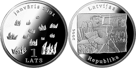 Barricades of January 1991 - 1 Lats (2006) Weight: 31.47 g, diameter: 38.61 mm Metal: silver, fineness .925, quality: proof Artists: Juris Petraskevics (graphic design), Andris Varpa (plaster model) Obverse: Stylized design of bonfire flames. The inscription "janvāris 1991" is arranged in a semicircle in the upper part of the coin; the numeral 1 with the inscription "LATS" beneath it is centered in the lower part. Reverse: Lāčplēsis, the Latvian mythological hero, is depicted in the centre with a raised sword against the background of concrete block barricades, with the rising sun behind him; the concrete blocks bear fragments of the appeals to fight for freedom. On the left, the inscription 2006 is arranged in a semicircle; the inscriptions "Latvijas" and "Republika" are placed above and below the central motif, respectively. Edge: Two inscriptions LATVIJAS BANKA (Bank of Latvia), separated by rhombic dots.